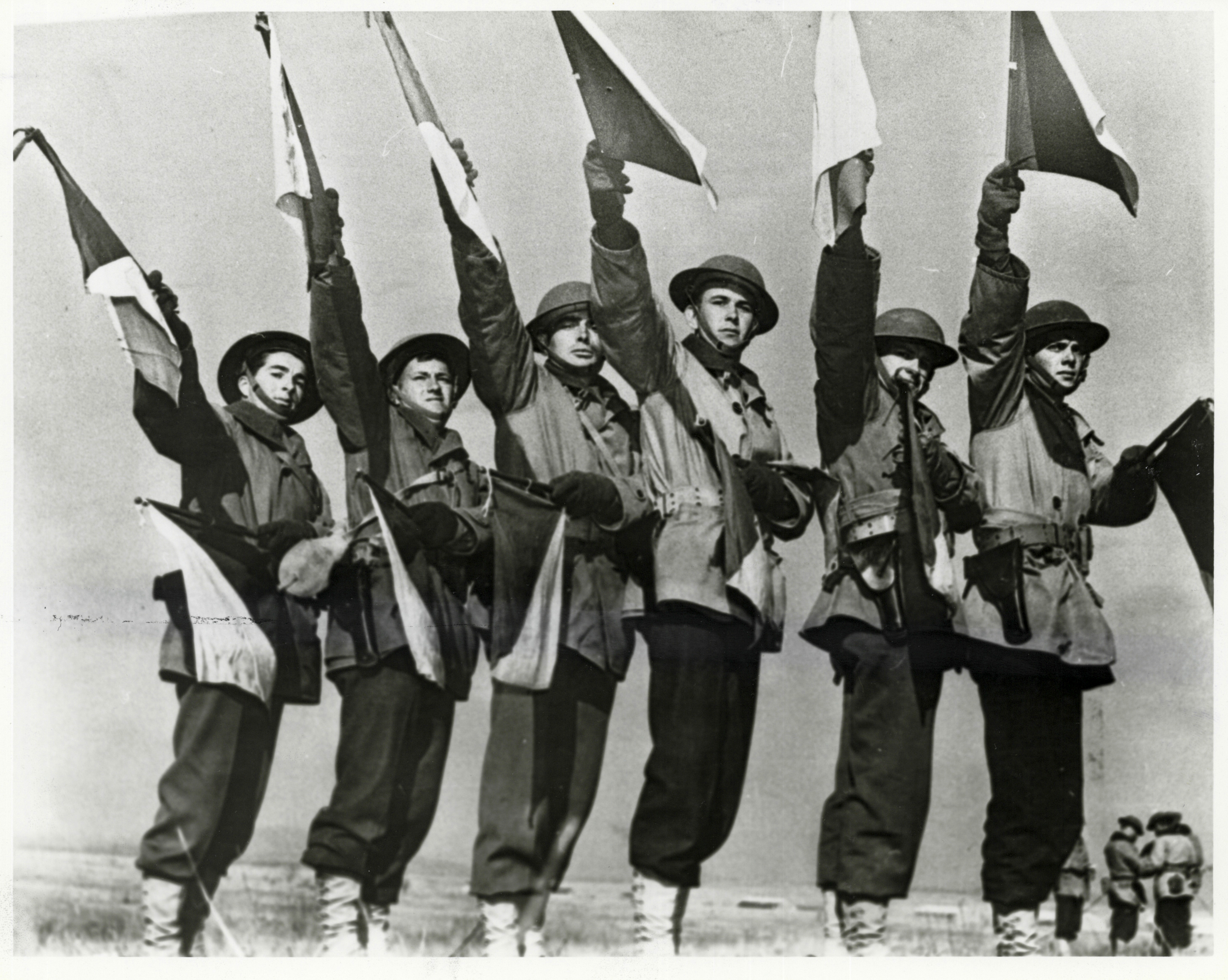 Soldiers train in the art of semaphore; i.e., distance telegraphy, regularly since mobilization. Training has been conducted by the 45th Division (elements of the Oklahoma, Colorado, New Mexico, and Arizona National Guards). As maneuvers begin, importance of this vital function of the army becomes of more importance. U.S. Army Signal Corps photo taken at Camp Berkeley, Texas, on April 23, 1941; neg. no. 118779.